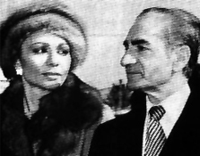 The Shah and Empress Farah shortly before leaving Iran in 1979.